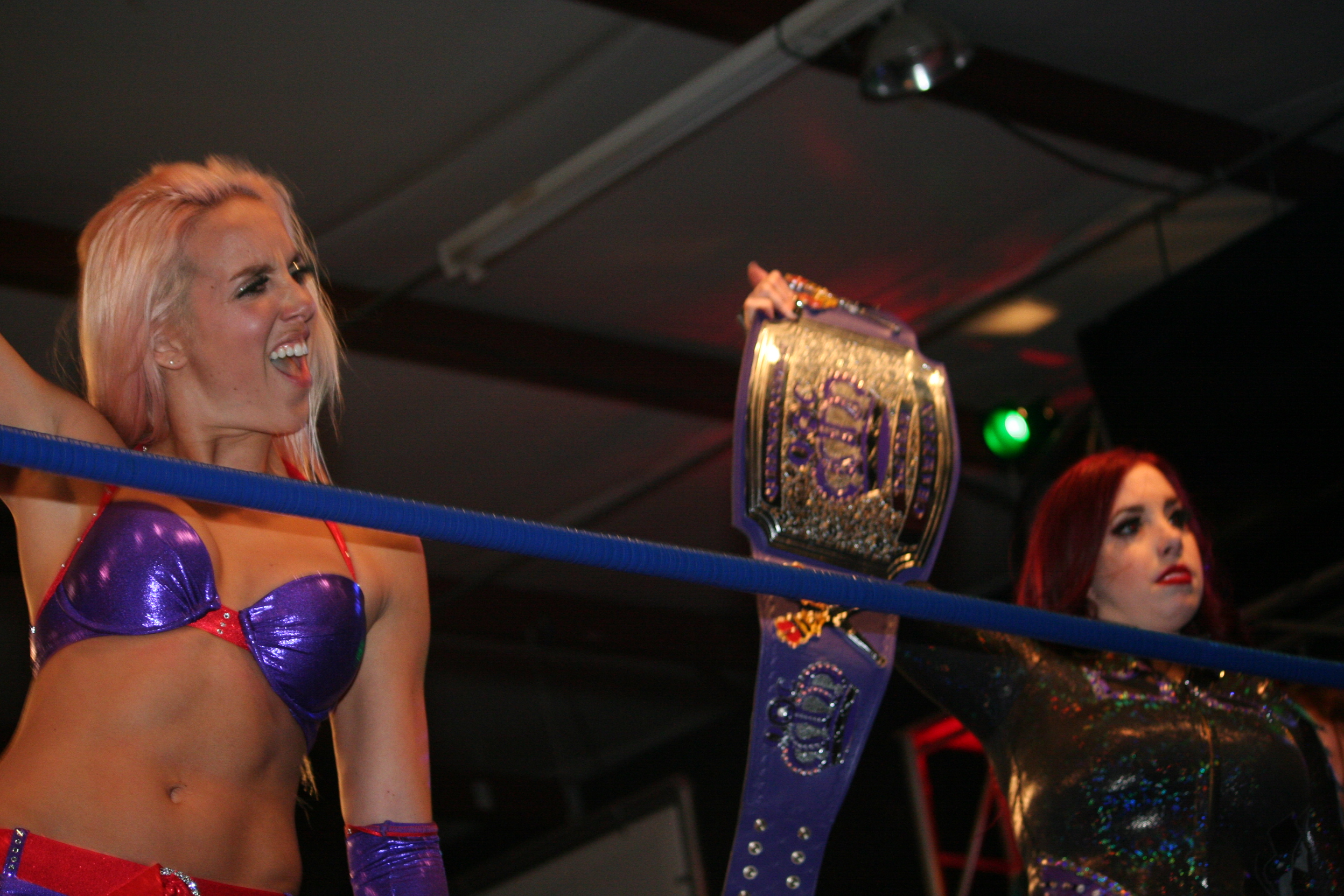 Chelsea Green, left, and Taeler Hendrix, right, as the Queens of Combat Tag Team Champions in January 2017.